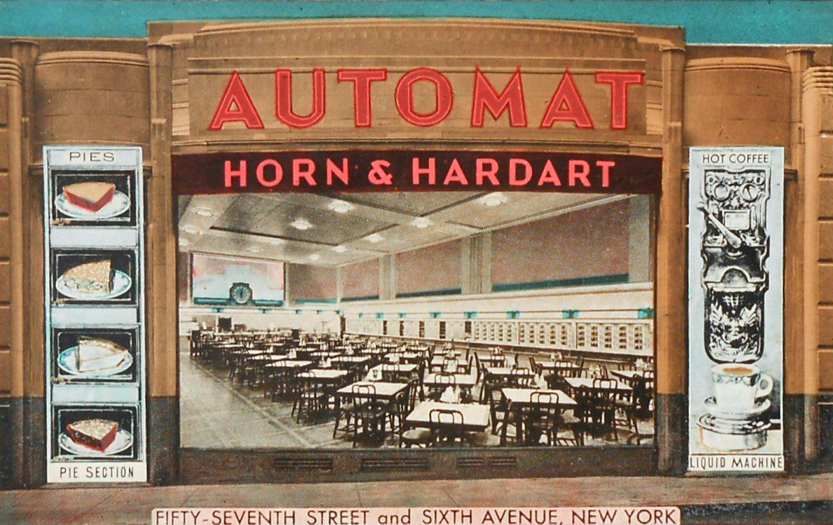 Postcard photo of the Horn & Hardart automat on 57th Street in New York City.